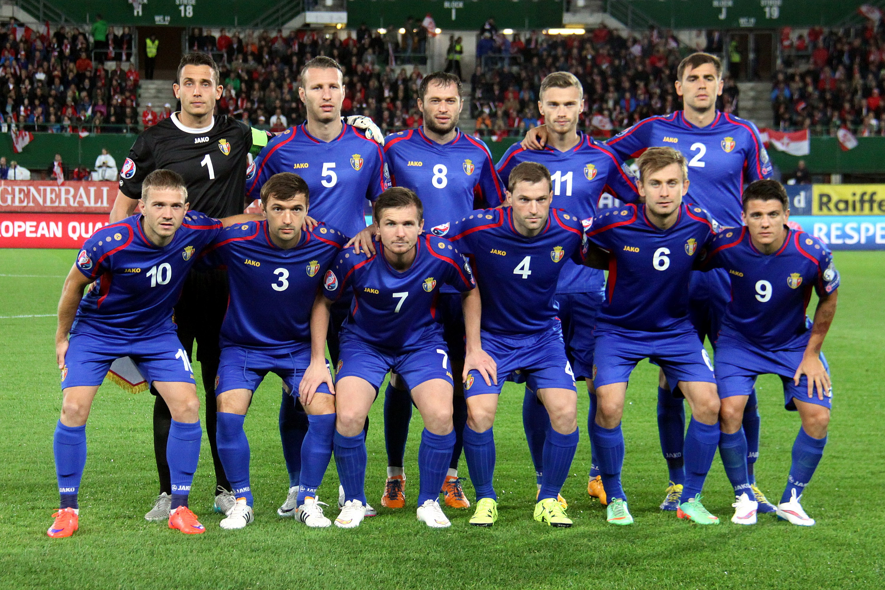 UEFA Euro 2016 qualifying, Group G – Austria national football team (red shirts) vs. Moldova national football team (blue shirts) on 2015-09-05 in Ernst-Happel-Stadion, Vienna – The photo shows the team of Moldova (from left to right): 1st row: Ilie Cebanu, Victor Golovatenco, Eugeniu Cebotaru, Nicolae Milinceanu, Igor Armaş; 2nd row: Alexandru Dedov, Artur Patraş, Andrei Cojocari, Iulian Erhan, Ion Jardan and Gheorghe Andronic.